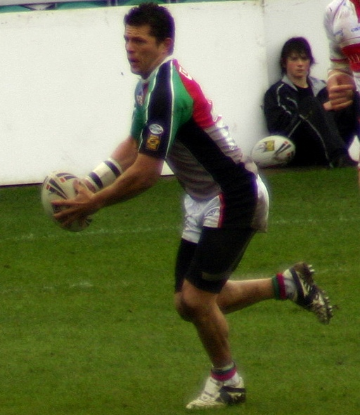 Henry Paul